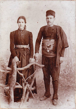 The young family Samuil and Anna Paiakovi from the Catholic quarter in Plovdiv in 1904